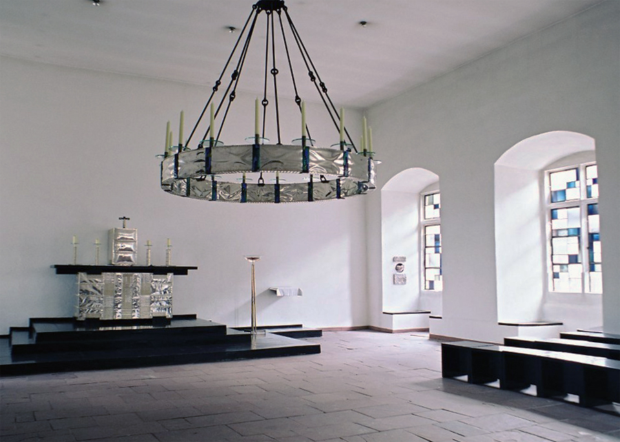 Kapelle Burg Rothenfels